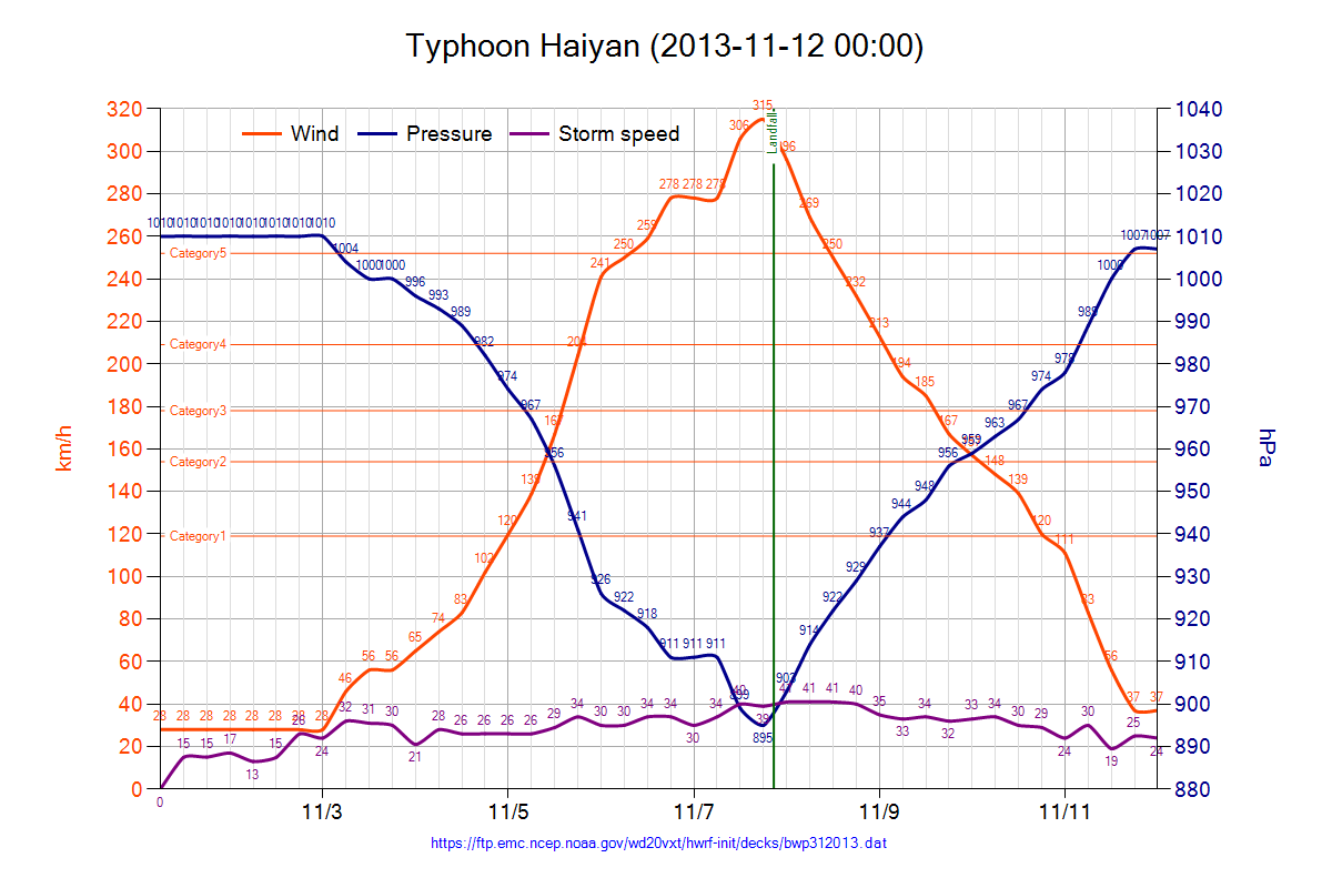 Typhoon Haiyan's 1-minute maximum sustained wind, minimum pressure and storm speed